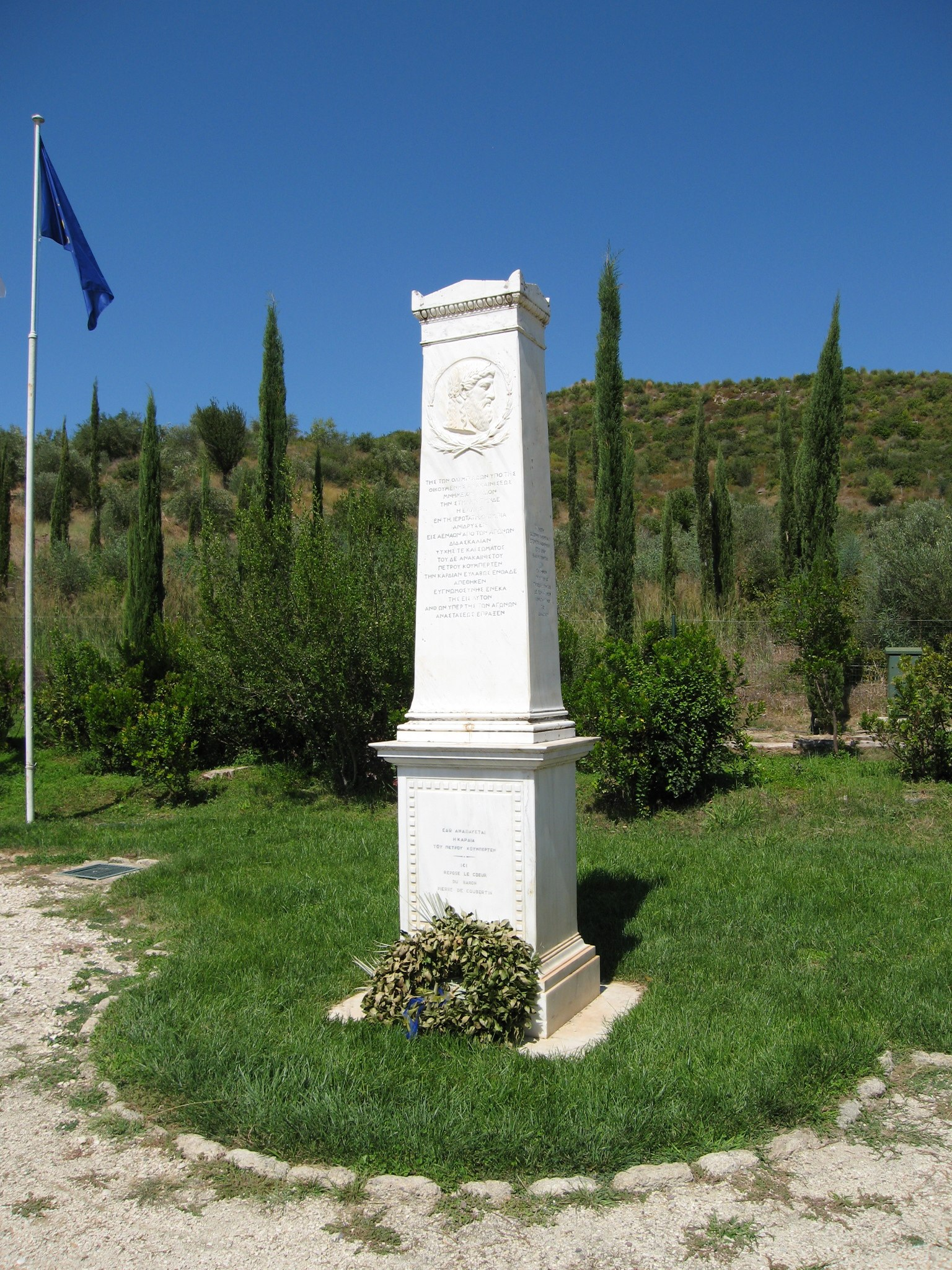 Olympia, Greece